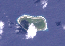 Landsat 7 image of Niutao, 30 meter resolution